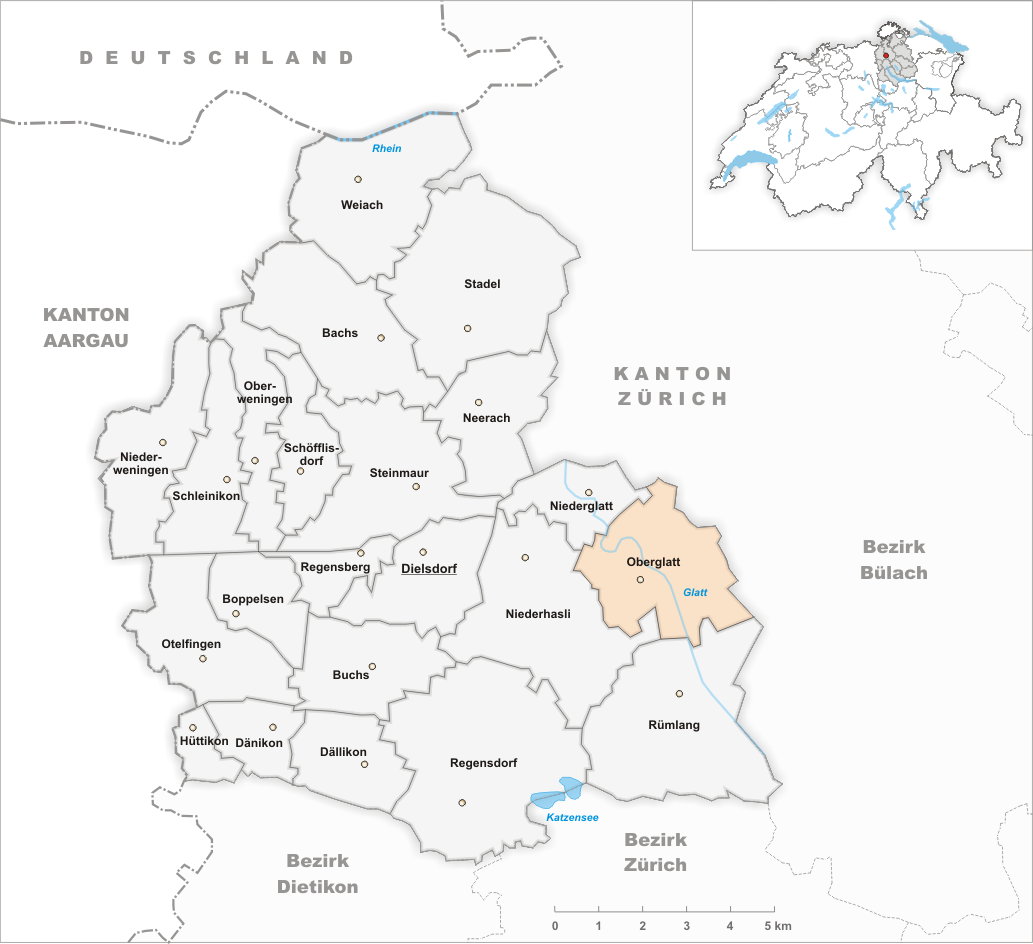 Municipality Oberglatt